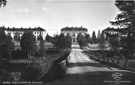 Postcard picture of the barracks of Boden Engineer Corps in 1934.